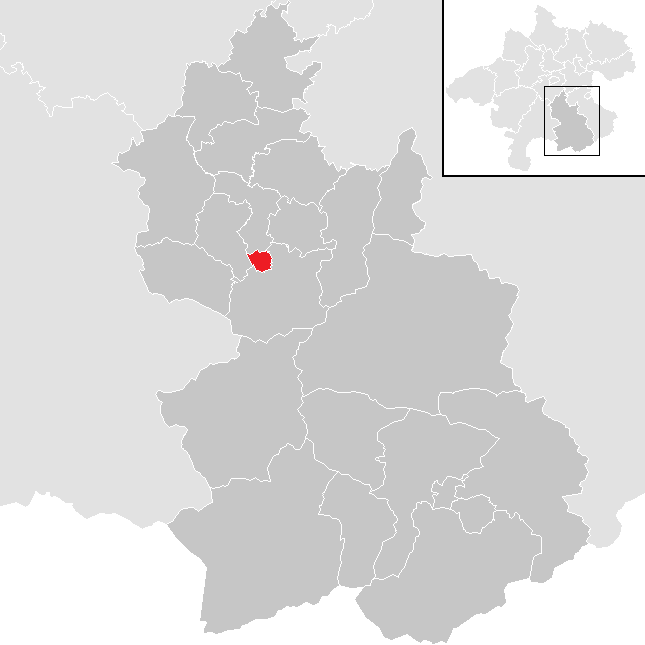 district Kirchdorf an der Krems